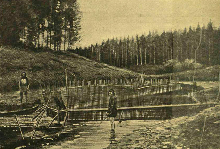 Khanty fishing (Big-Yugan River, Siberia). From the book of János Jankó A magyar halászat eredete (The source of the Hungarian fishing), 1900.